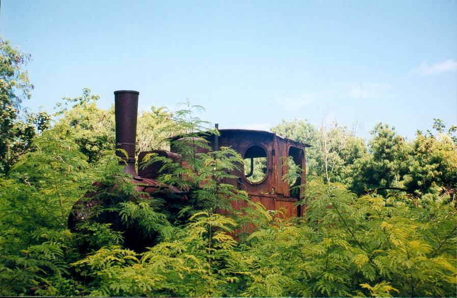 Old locomotive Orenstein & Koppel 040T for 60-cm wide gauge railway seen in Makatea, Tuamotu, French Polynesia